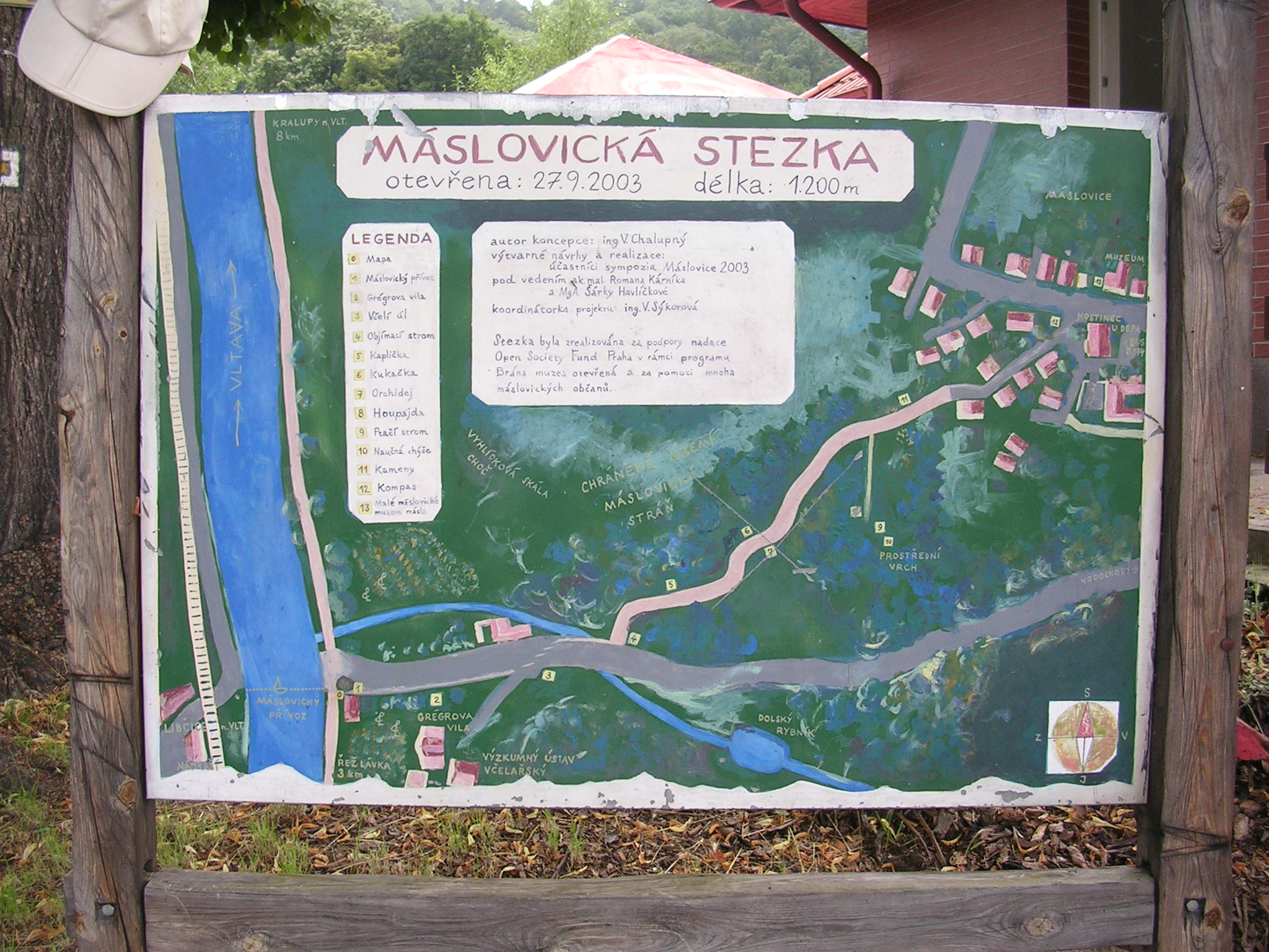 Máslovice-Dol, Prague-East District, Central Bohemian Region, the Czech Republic. The entry board of the Máslovice Trail.